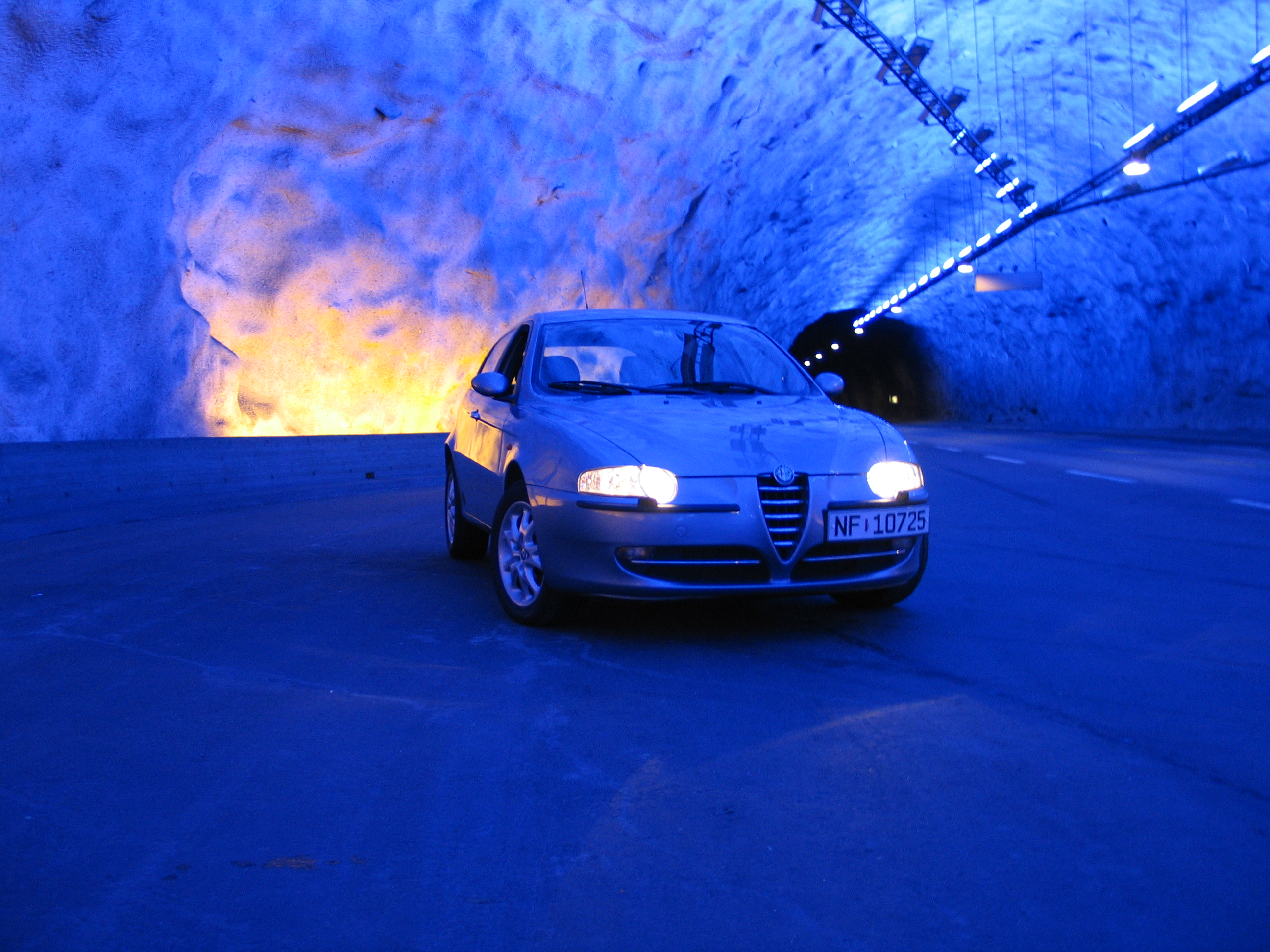 Alfa Romeo 147 in the Lærdal tunnel, Norway